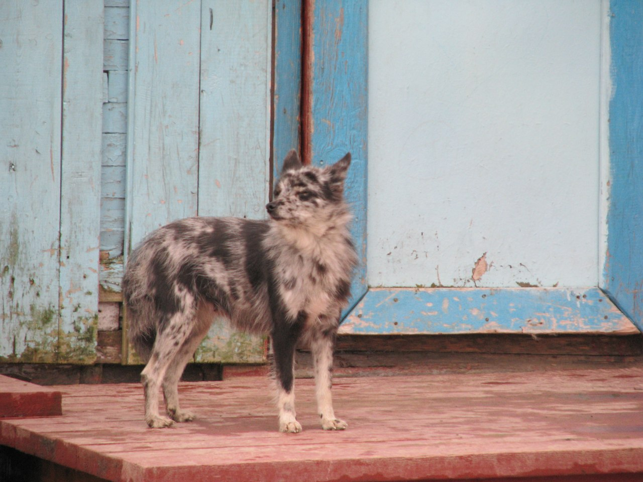 Фото Ненецкая лайка (оленегонный шпиц)